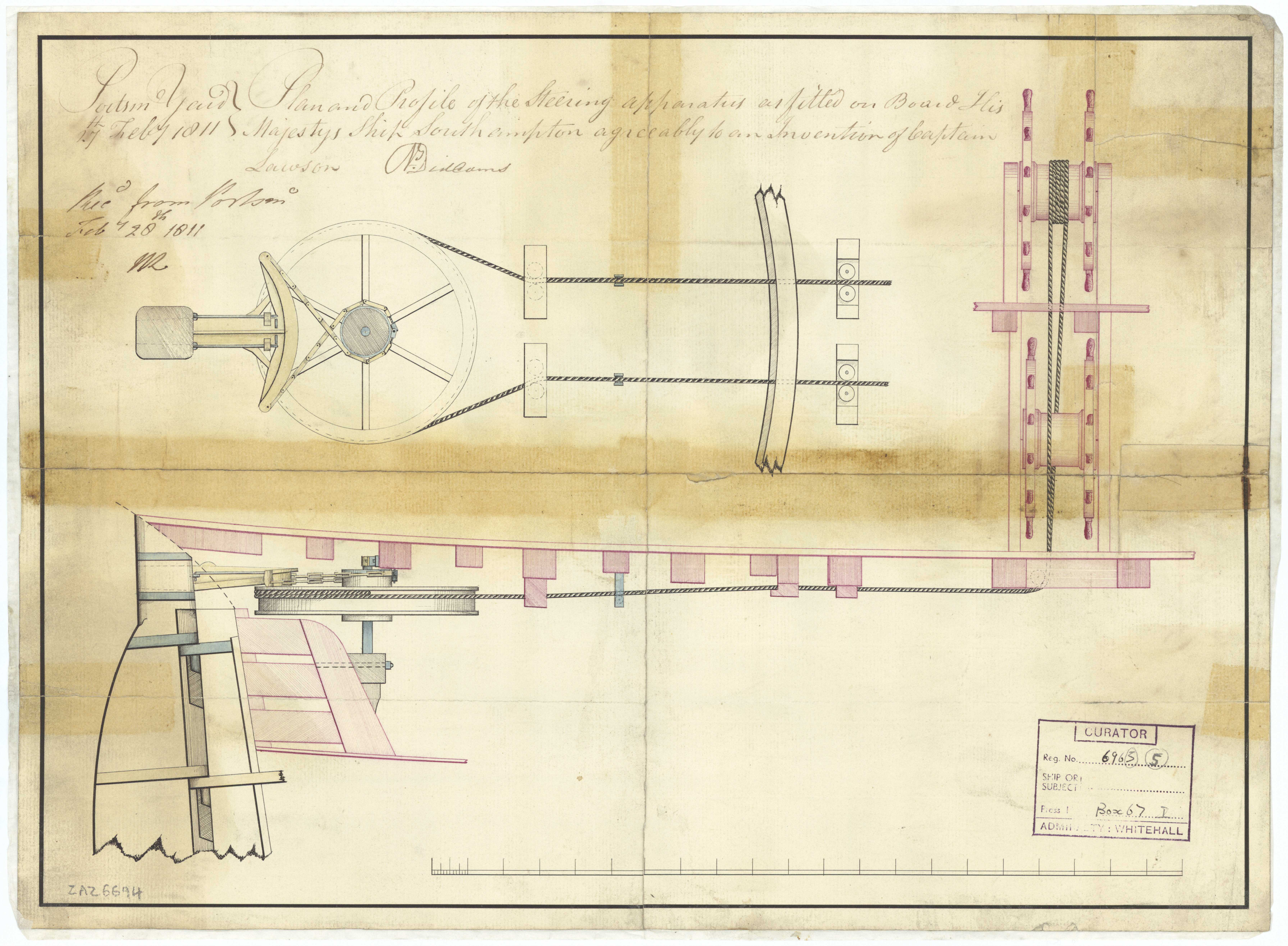 Southampton (1757) Scale: 1:24. Plan showing the elevation and plan for the steering apparatus as fitted to Southampton (1757), a 32-gun Fifth Rate Frigate; to an invention of Captain Lawson (Seniority, 21 October 1810, no ship assigned [Steel's Navy List, March 1811]). Signed Nicholas Diddams [Master Shipwright, Portsmouth Dockyard, March 1803 - January 1823]. steering apparatus